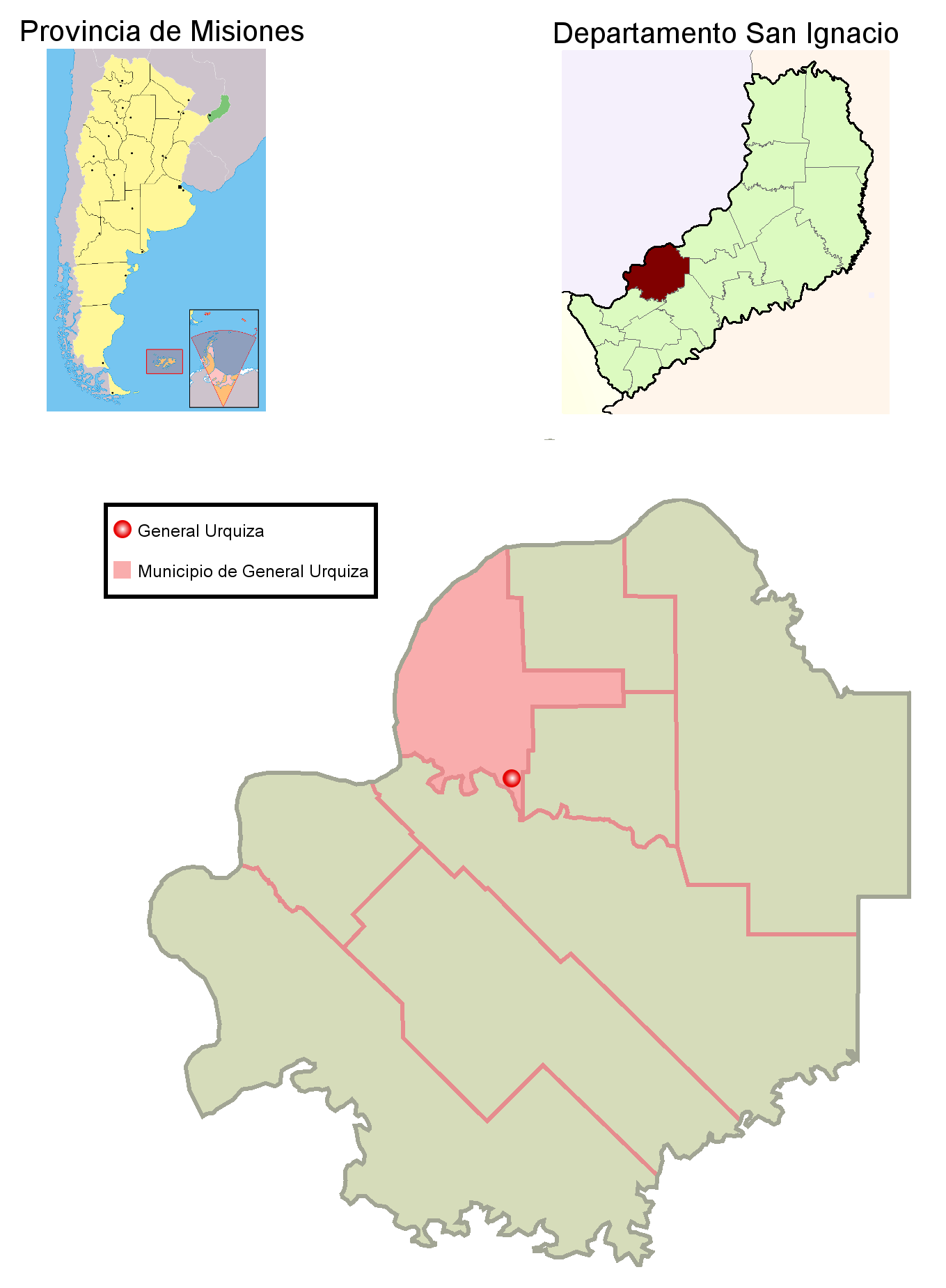 A map showing municipio of General Urquiza in San Ignacio departament, Misiones province, Argentina. Also shows General Urquiza town location. Created with GIMP.